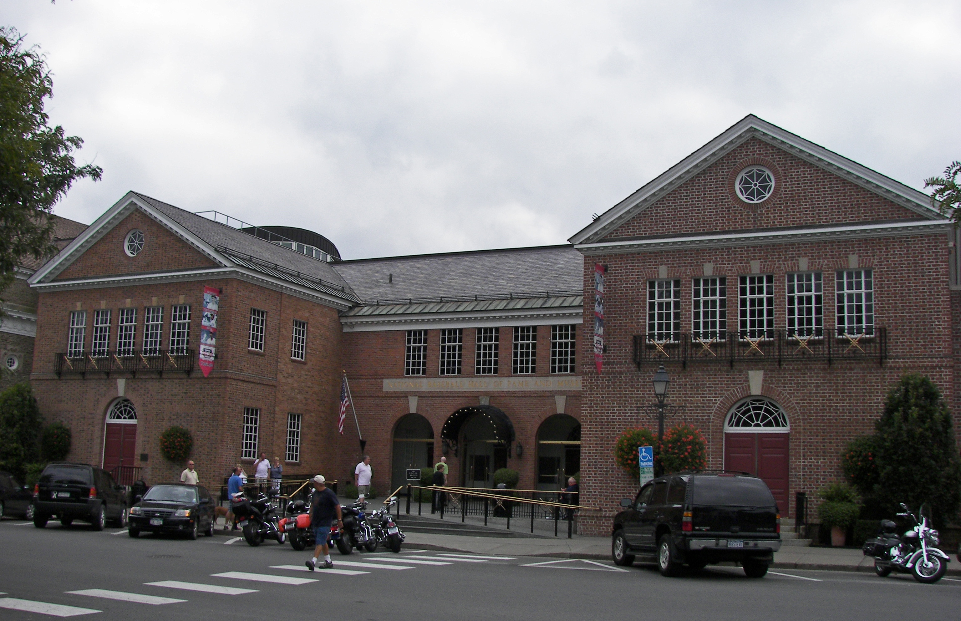 National Baseball Hall of Fame and Museum in Cooperstown, New York. Part of the Cooperstown Historic District.